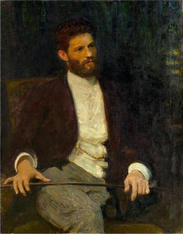 Portrait of sculptor Mark Matveevich Antokolski. Oil on canvas